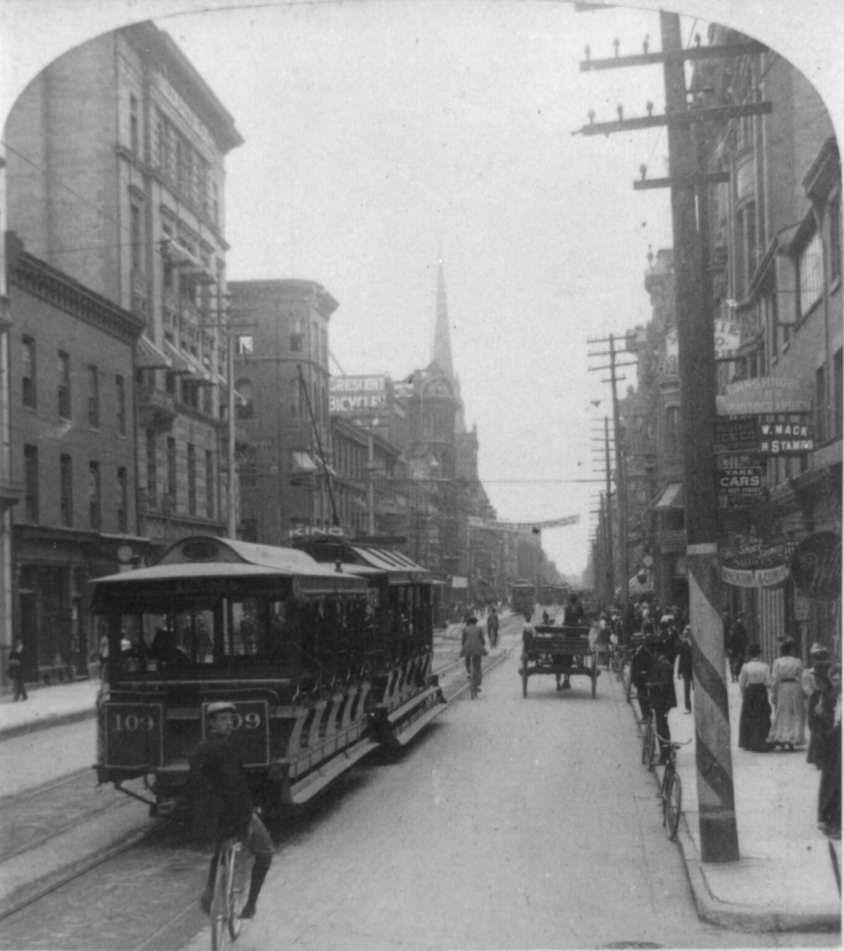 King Street looking east from Yonge Street. Toronto, Canada.